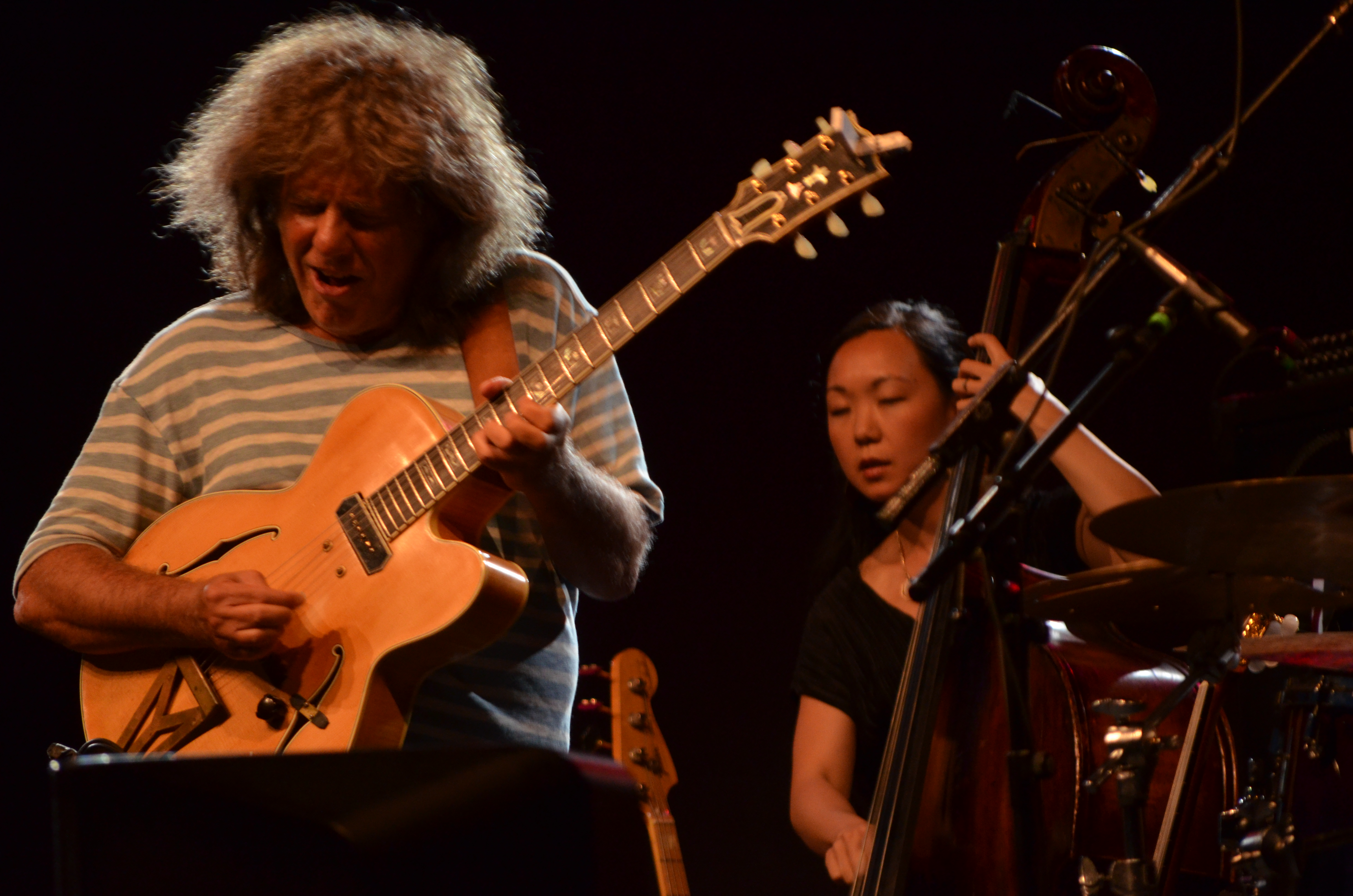 Concert of Pat Metheny with the group Unity - Gwilym Simcock (piano) Linda May Han Oh (contrabajo) Antonio Sanchez (batería) - at San Javier International Jazz Festival